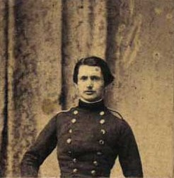 Christian Henrik Arendrup (1837-1913), Danish army officer, Governor of the Danish West Indies